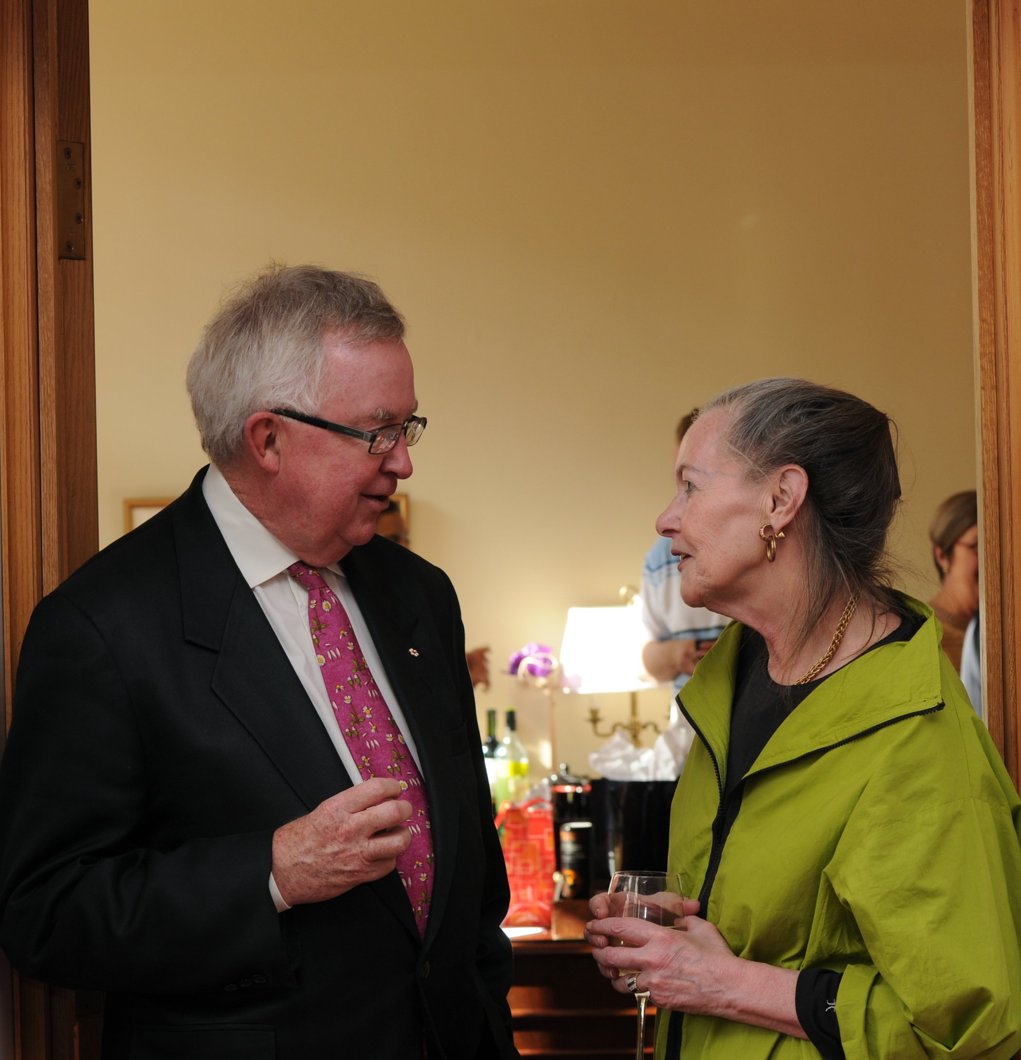 Former Canadian Prime Minister Joe Clark talking with Progressive Conservative Senator Elaine McCoy (Alberta) in Centre Block, Parliament Hill, Ottawa, Canada.